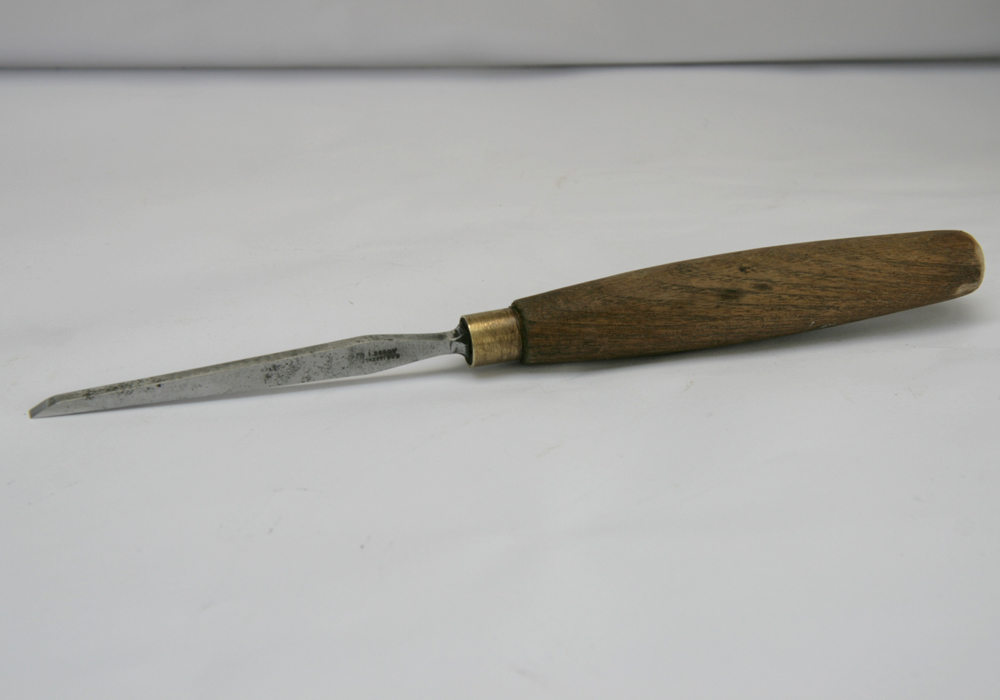 Mortice chisel by Sorby, Sheffield, width about 9/64 ""